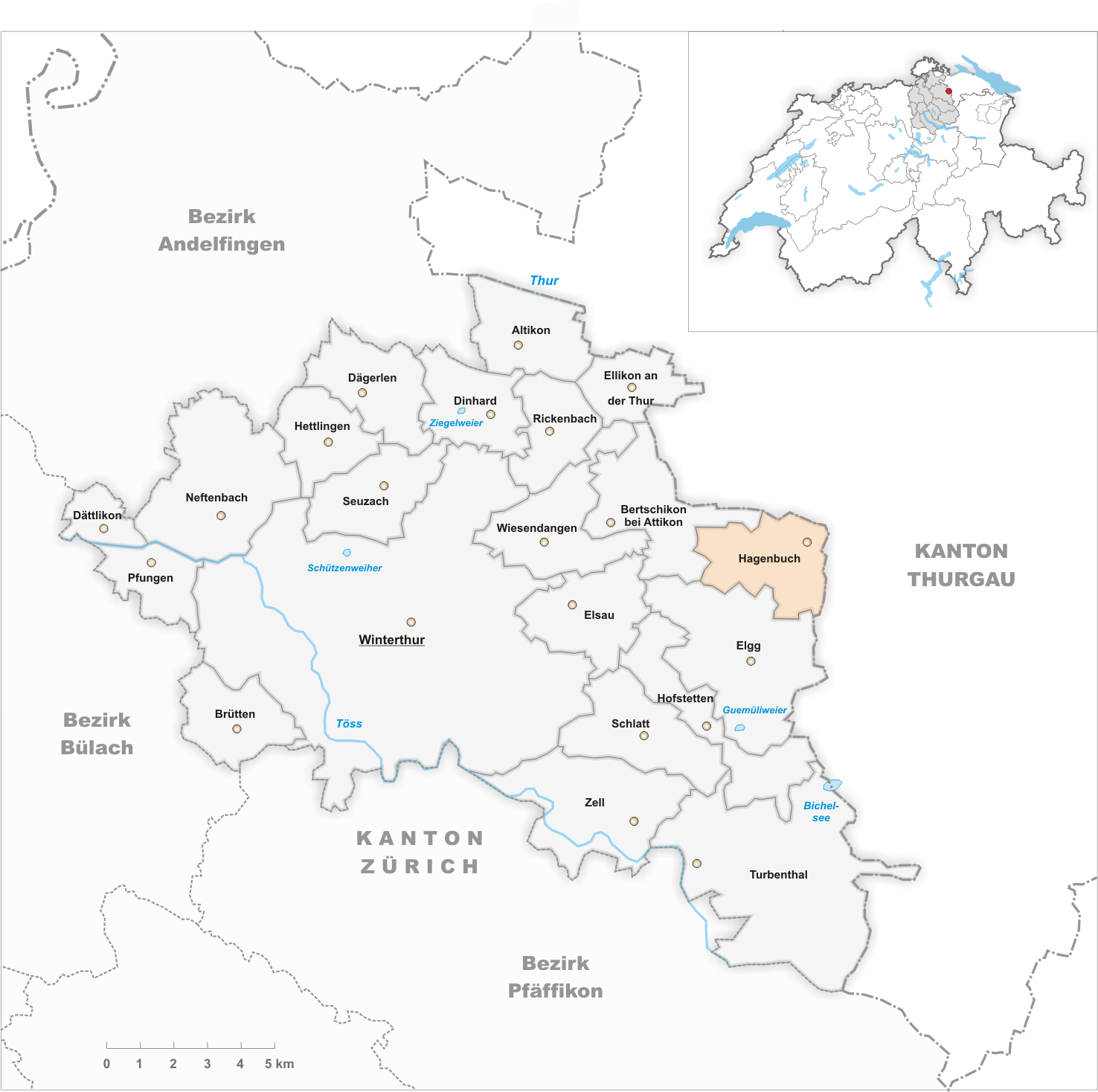 Municipality Hagenbuch